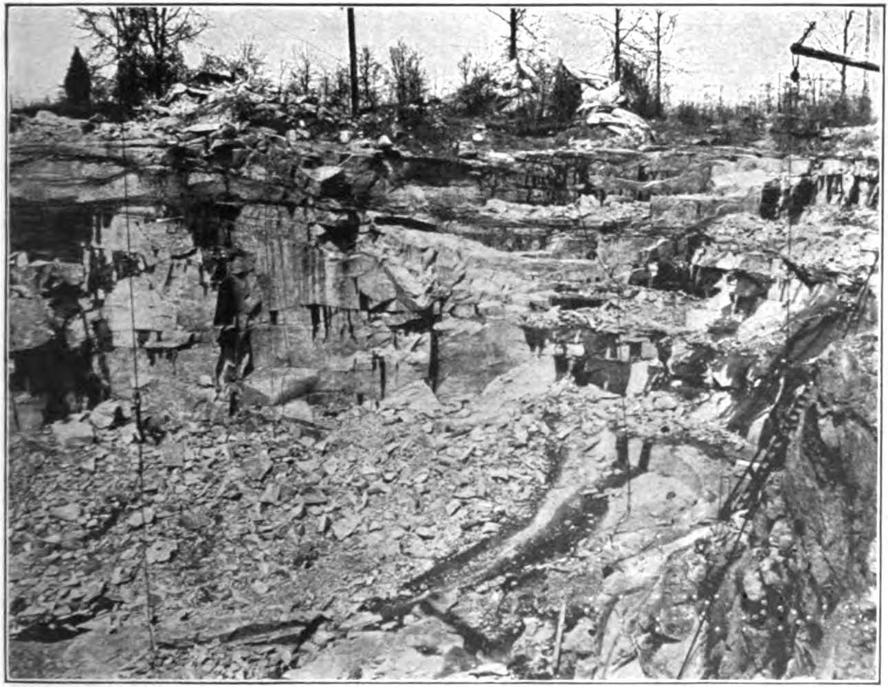 Original caption: "Guilford and Waltersville Granite Company's Quarry, Guilford, MD."Guilford is now within the village of Kings Contrivance, Columbia, Maryland. The quarried rock is now called the Guilford Quartz Monzonite. Text from the volume referring to this figure: The horizontal joints, prominent in all the larger quarries, separate the granite into sheetlike masses, which usually have their strongest development near the surface, but in some quarries extend to the entire depth of working. Nowhere is this better shown among the Maryland granites than in the old Guilford and Waltersville Granite Company's quarry in the Woodstock area (Pls. IV, B; VI, B). The sheets may vary from a few inches in thickness at or near the surface to 2 to 10 feet at some distance below the surface. In the quarries on the Baltimore County side of Patapsco River, at Ellicott City, sheeting extends to the depth of working, more than 90 feet, and the sheets range, in thickness from 2 to 4 feet. In the quarries of the Woodstock area the sheets are from 2 to 6 feet thick, and in the quarries of the Guilford area from 3 to 10 feet thick. Approximately the same range in thickness is shown in the Port Deposit quarries, one of which has been worked to the extreme depth of 230 feet.